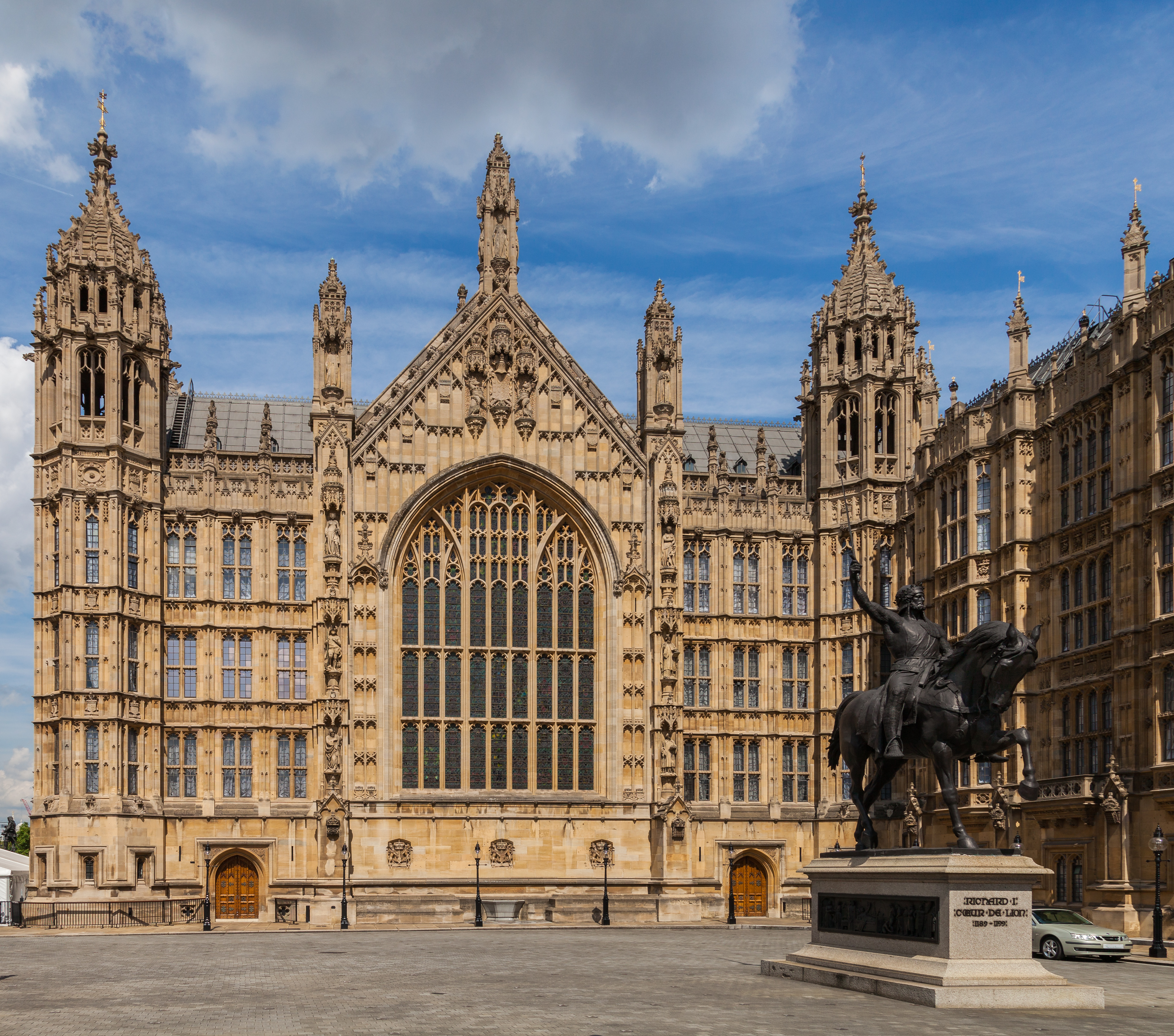 Westminster Hall, London, England